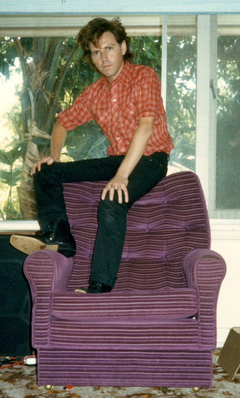 Kim Salmon at his home in Perth in January 1989. Photographed on cheap compact 35mm film camera.